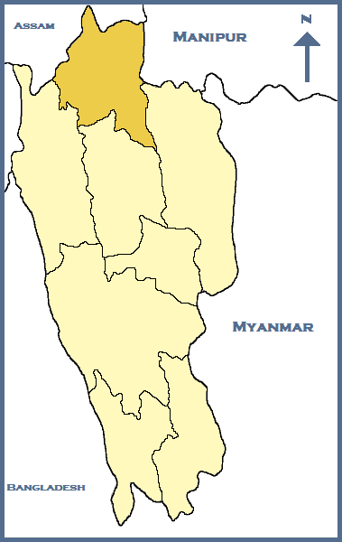 A locator map of Kolasib district, Mizoram